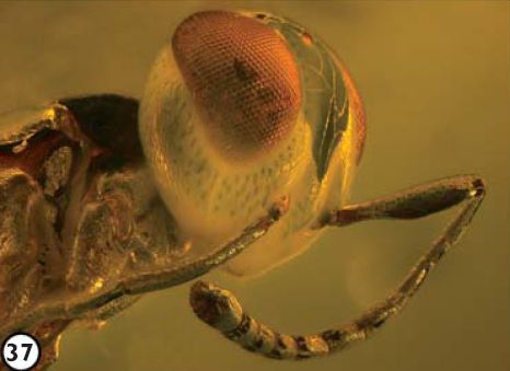 Holotype female of Brevivulva electroma, frontolateral view of head.